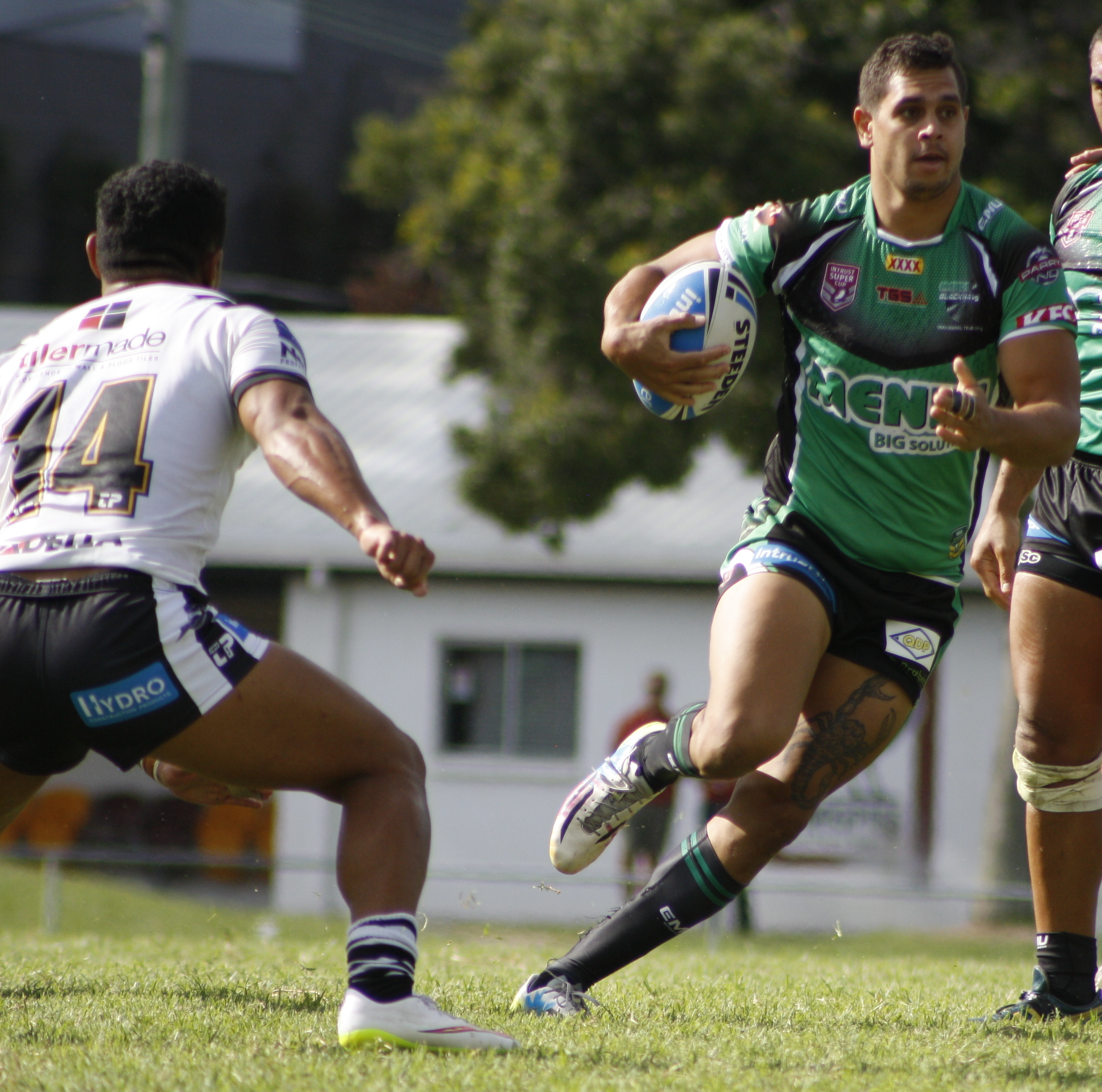 Souths vs Townsville 12 April 2015, Intrust Super Cup, Davies Park